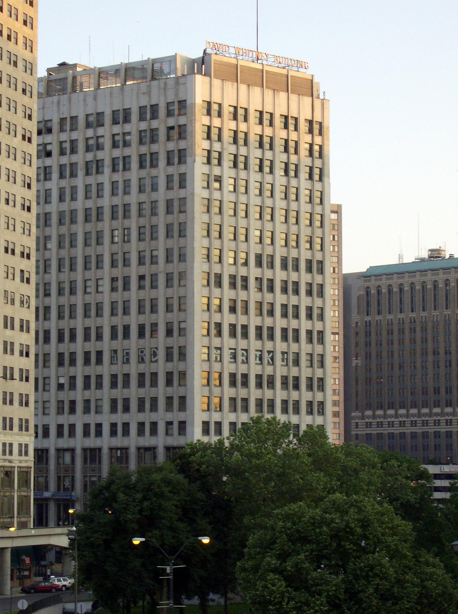 David Whitney Building on Woodward Avenue across from Grand Circus Park, in Midtown Detroit, Michigan. Built in 1916 in the Renaissance Revival style, it is under restoration and being redeveloped as a hotel and condominiums (2012). The Grand Circus Park Station of the Detroit People Mover occupies the first two floors. This is a historic district contributing property to the Grand Circus Park Historic District.